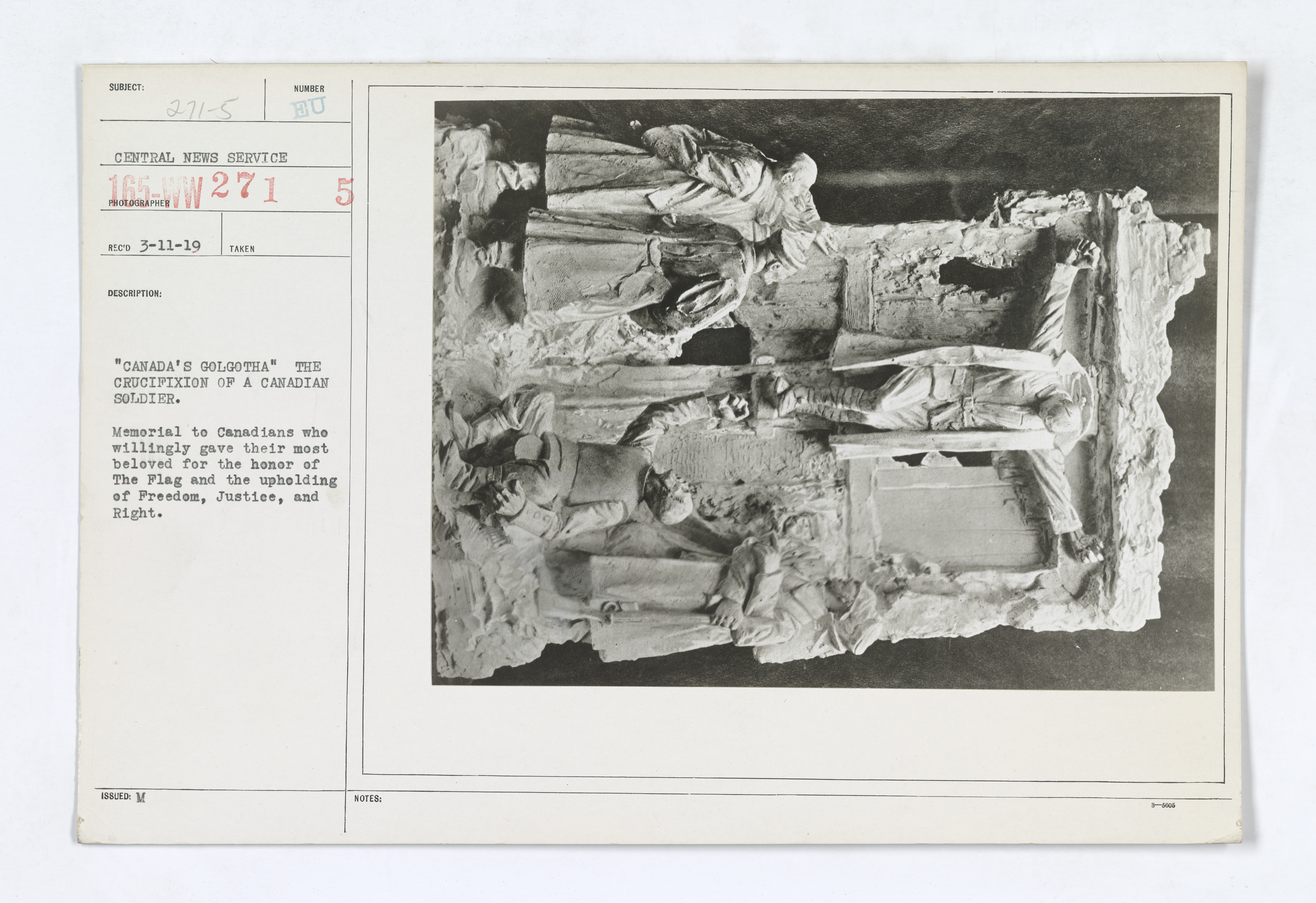 Scope and content: Photographer: Central News Service